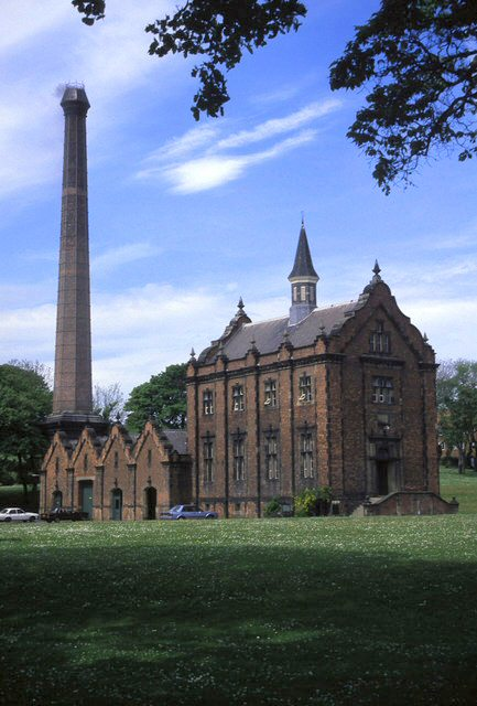 Ryhope Pumping Station, Sunderland, Tyne and Wear Comment (at Geograph) by Chris Allen (photographer): What can one say! This has been described as "The finest industrial monument in the north-east". Victorian waterworks with preserved and workable beam engines and Lancashire boilers.